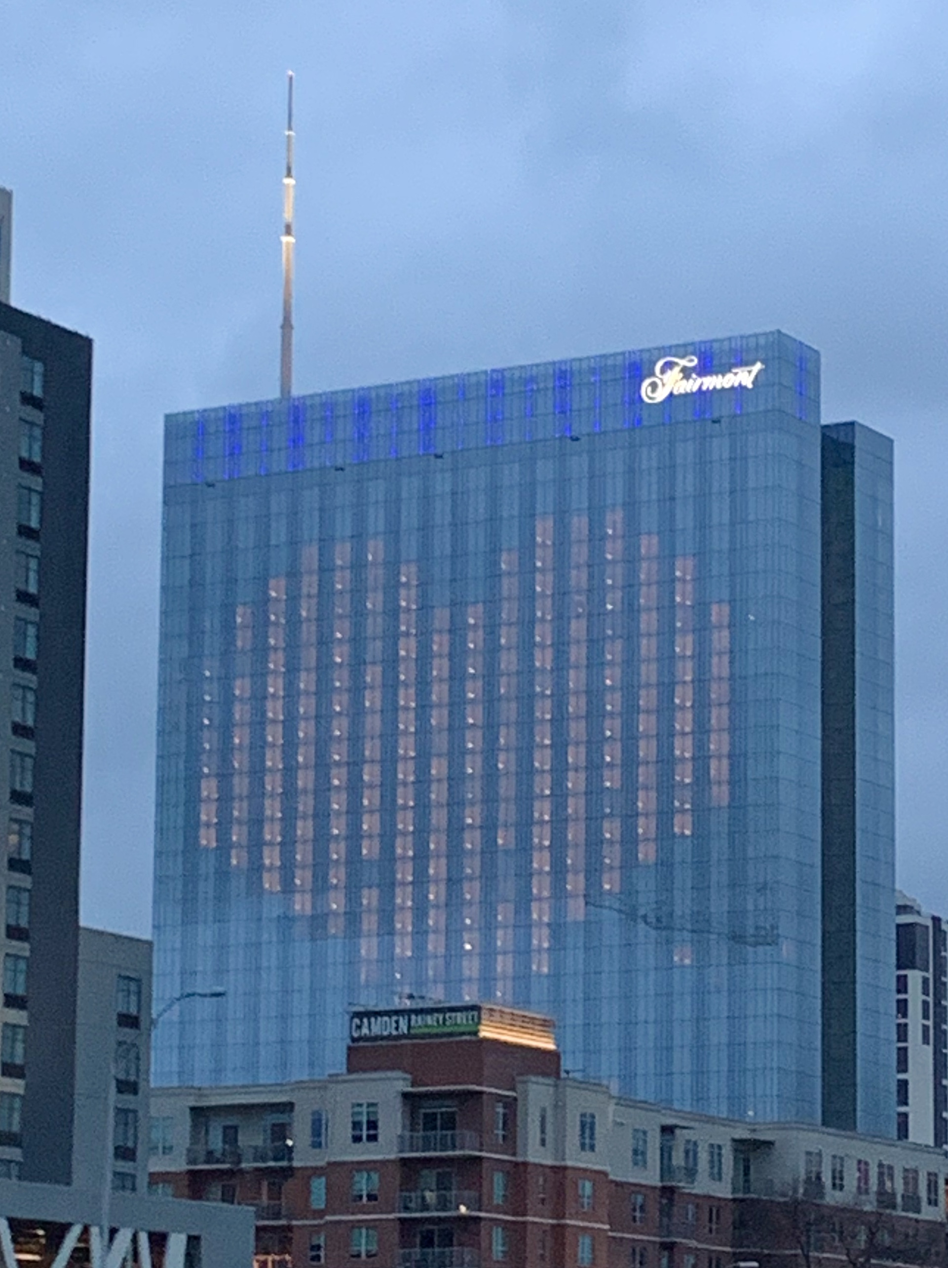 The Fairmont in Austin, Texas blocks lights up rooms to look like a heart in February 2020.